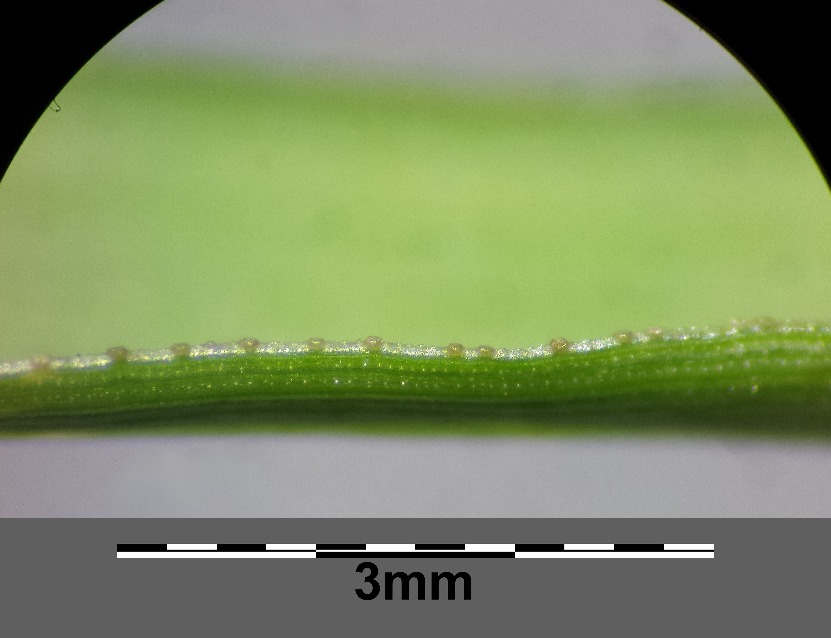 Leaf with glands on the margin Taxonym: Eragrostis minor ss Fischer et al. EfÖLS 2008 ISBN 978-3-85474-187-9 Location: Leopoldau, Vienna-Floridsdorf - ca. 160 m a.s.l. Habitat: gap in road surface